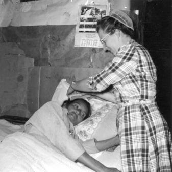 Caption: 1961. Florence Alderfer RN, Perkesie, PA. combing the hair of a woman in migrant camp who is confined to her bed for the present time. With exercise she may walk again so Florence has been encouraging her. Citation: Mennonite Board of Missions. Photographs. Arizona VS/Migrant Units, 1955-1962. IV-10-7.2 Box 2 Folder 1, photo #57. Mennonite Church USA Archives - Goshen. Goshen, Indiana.